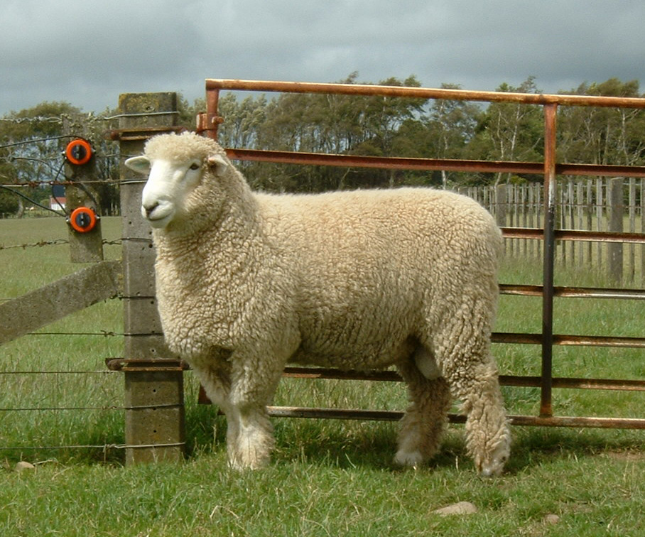 Romney ram. Photo taken by Sawyer12477.